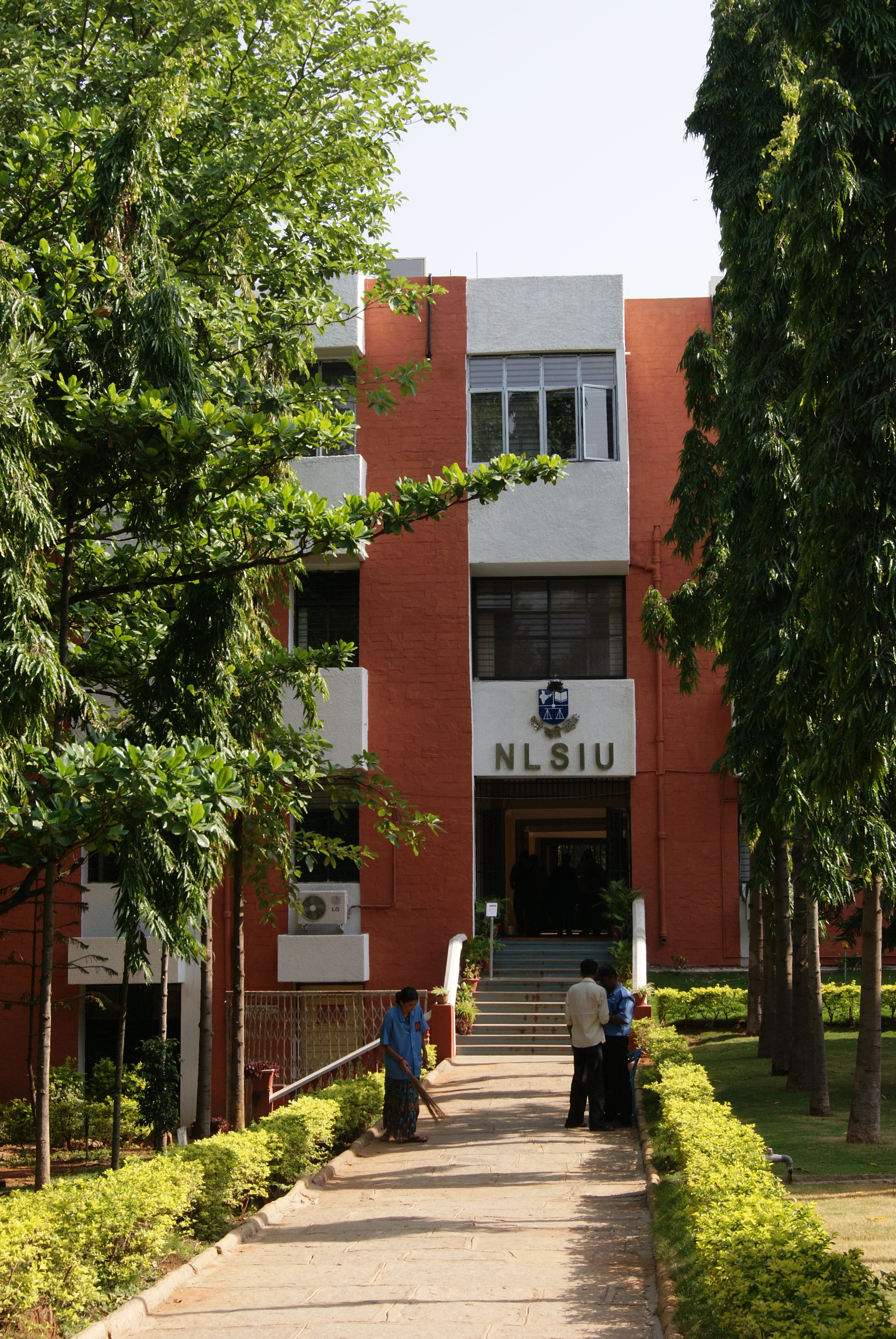 The National Law School of India University in Bangalore, Karnataka, India.